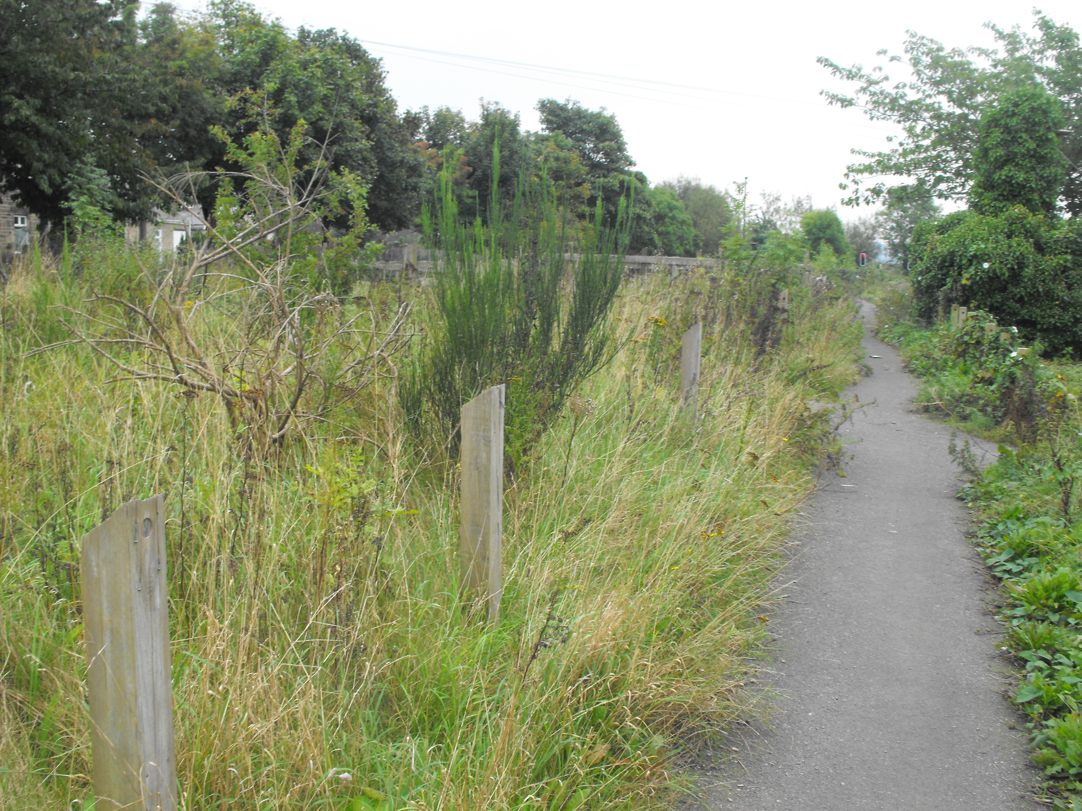 The site of Newburn railway station in early 2008